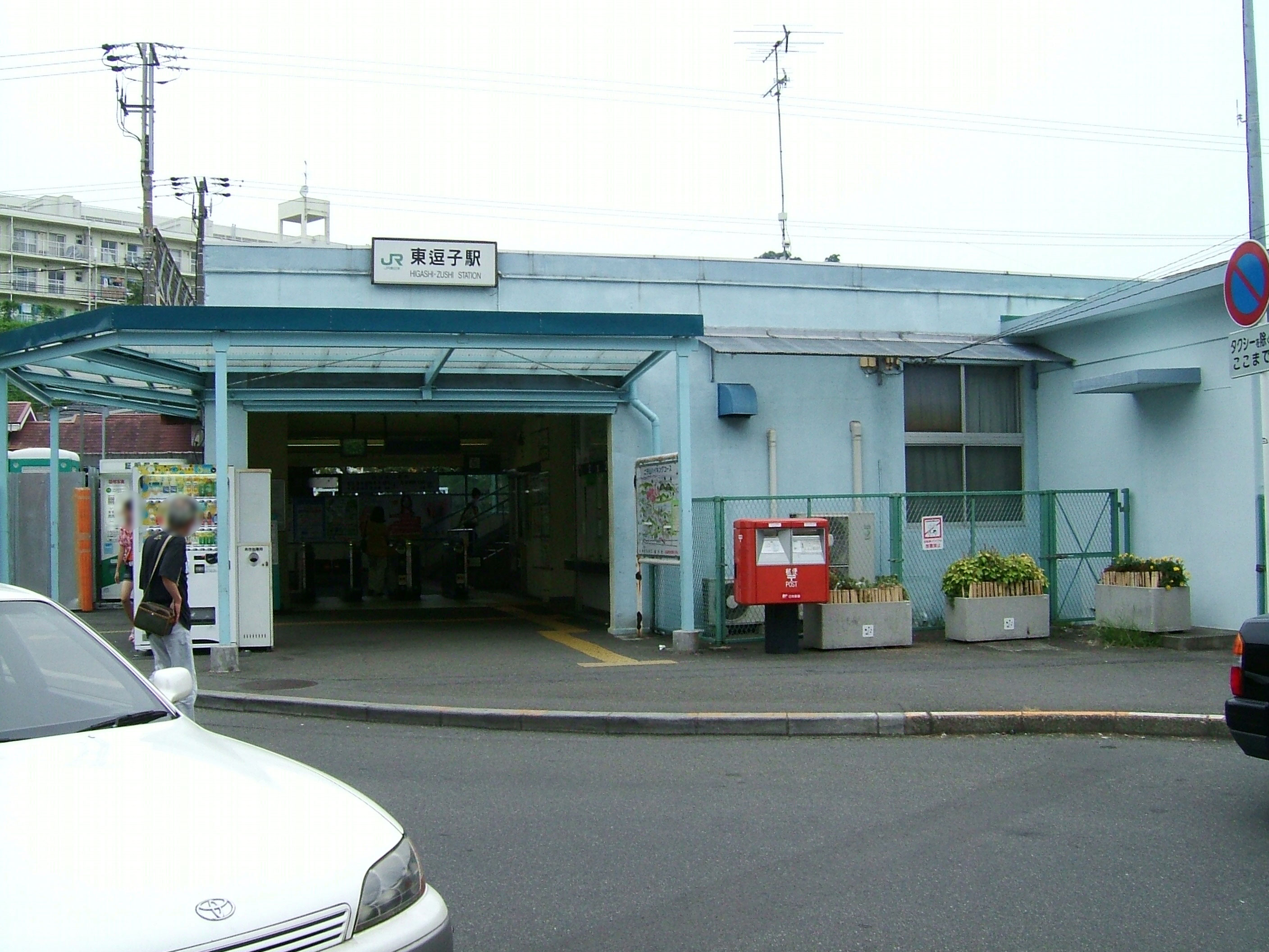 Higashi-Zushi Station entrance (East Japan Railway Yokosuka Line)